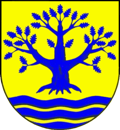 Coat of arms of the municipality Nübel in Schleswig-Holstein, Germany.